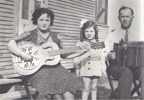 An image of Cléoma Breaux with her husband Joe Falcon